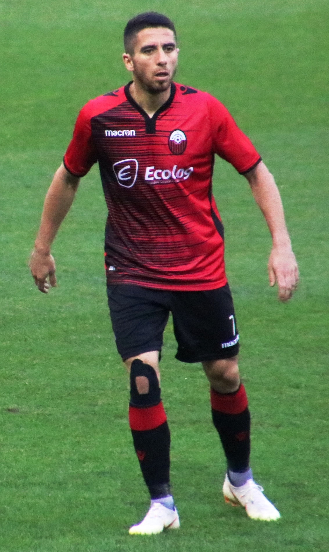 3rd round qualifier Uefa Championsleague